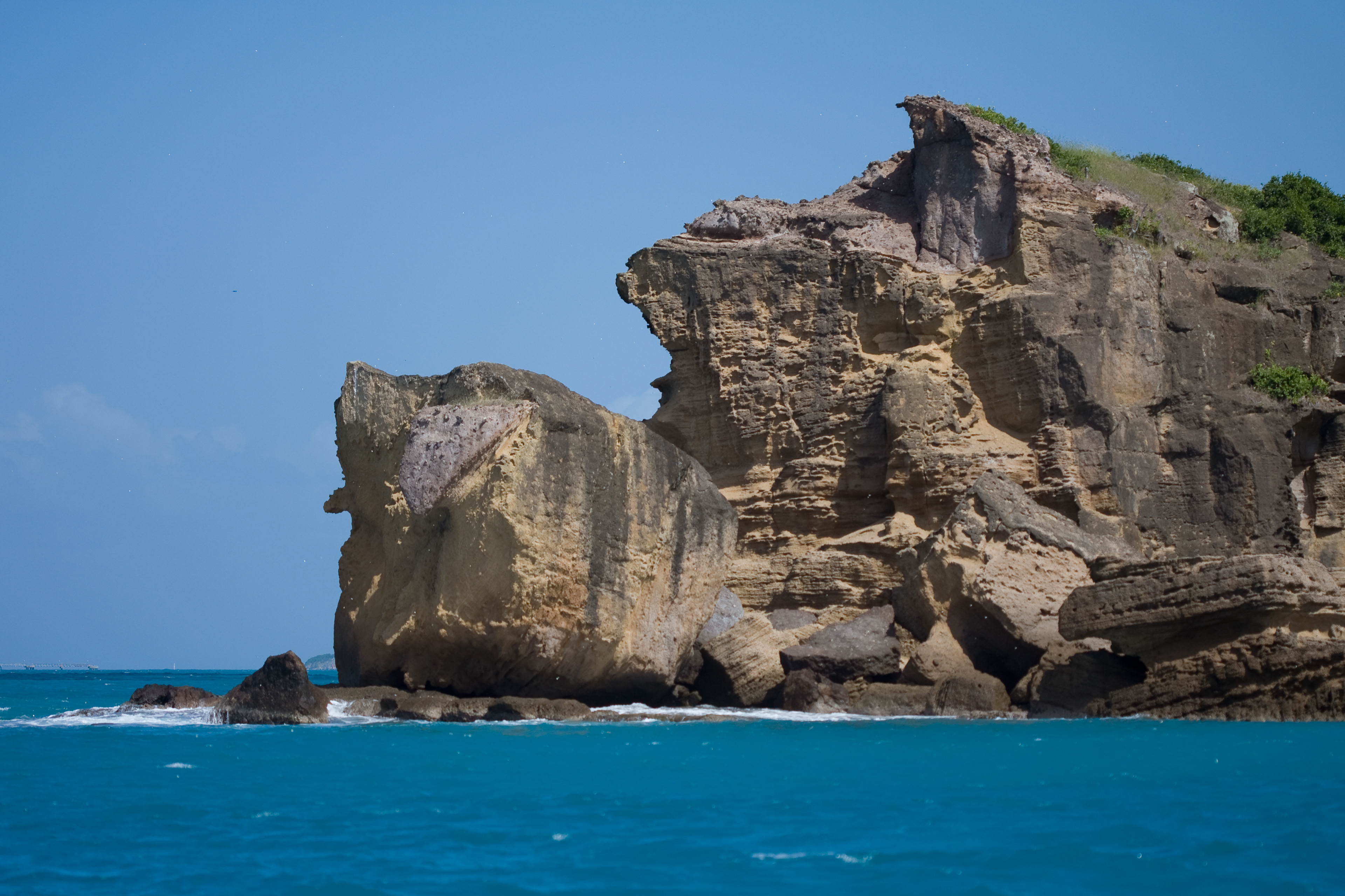 Rocky cliff in Antigua